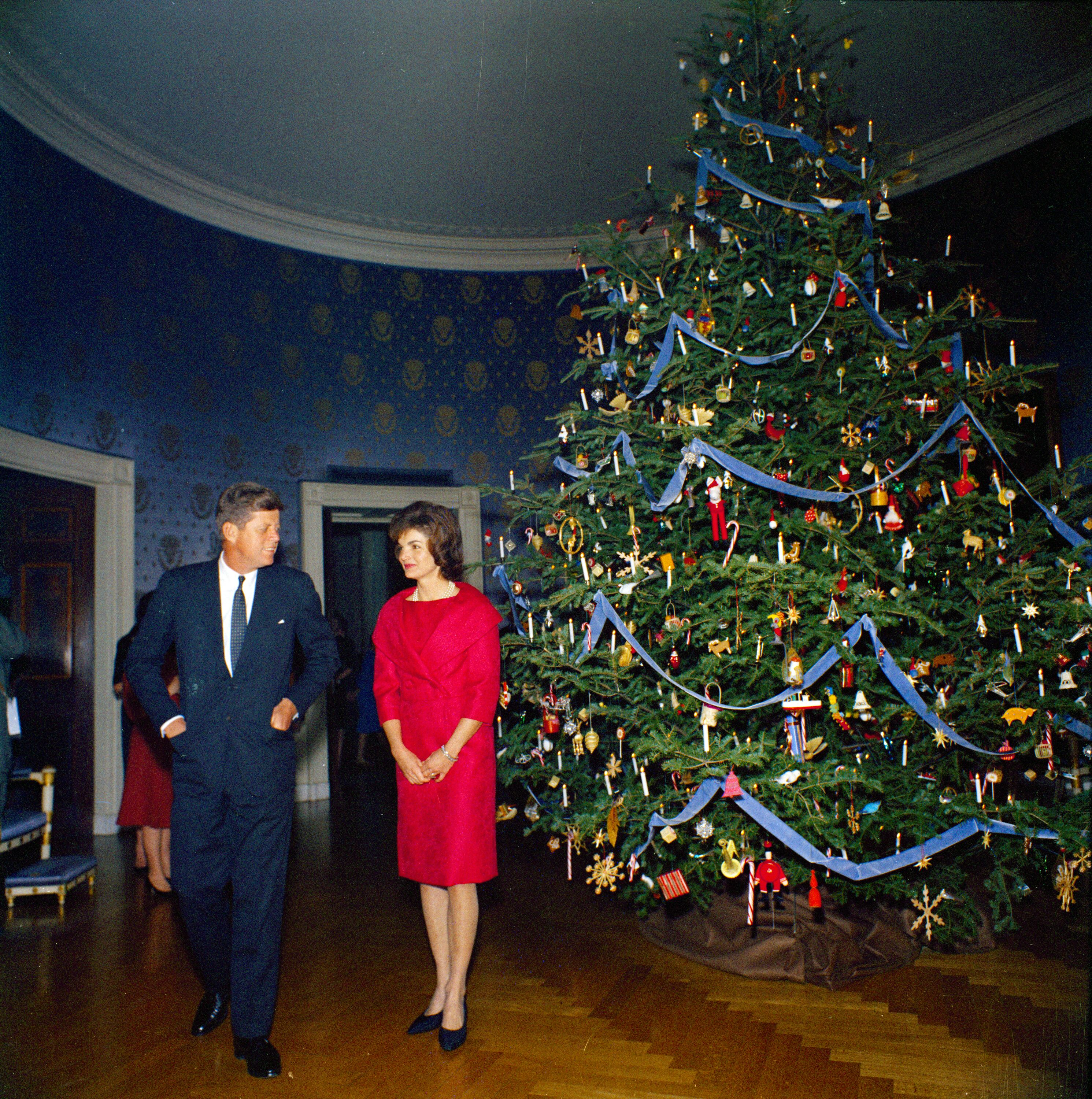 President John F. Kennedy and First Lady Jacqueline Kennedy introduced the tradition of Christmas Tree themes in 1961 with a "Nutcracker Suite" theme featuring trimmings derived from the ballet by Tchaikovsky. Ornaments included gingerbread cookies, tiny toys, wrapped packages, candy canes and straw ornaments made by disabled or senior citizen craftsmen throughout the United States. (Pictured: 1962 Blue Room Christmas Tree, President John F. Kennedy, First Lady Jacqueline Kennedy)